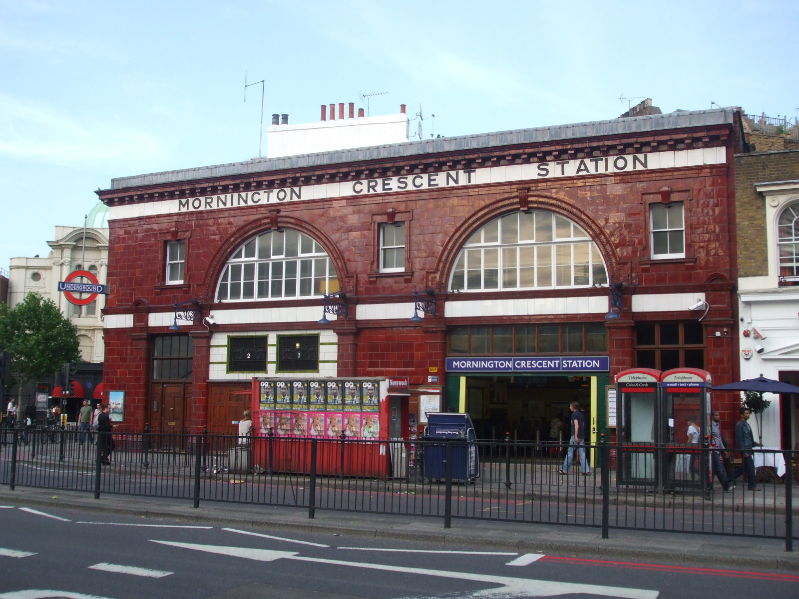 Mornington Crescent tube station